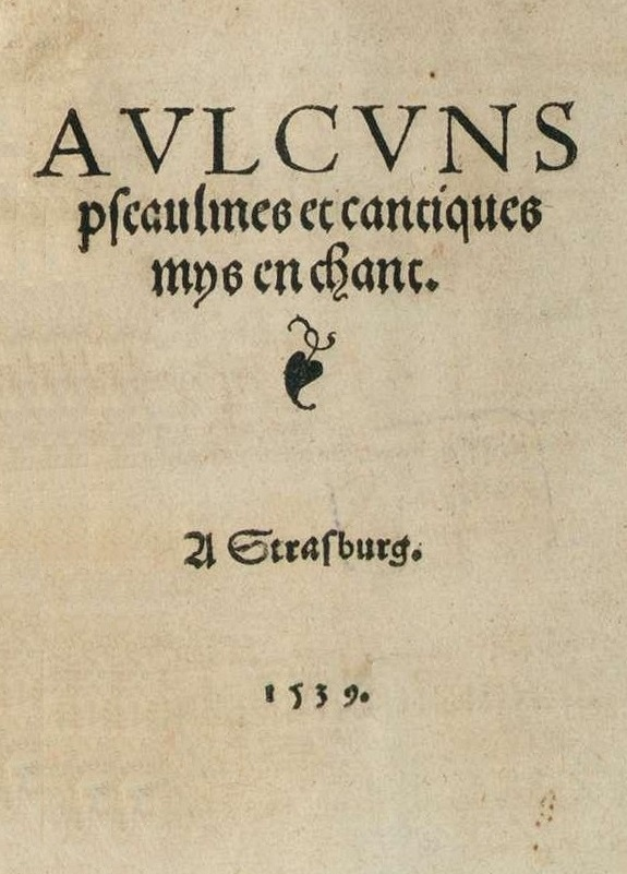 Calvins Psautier Huguenot (ed. 1539) - Title page